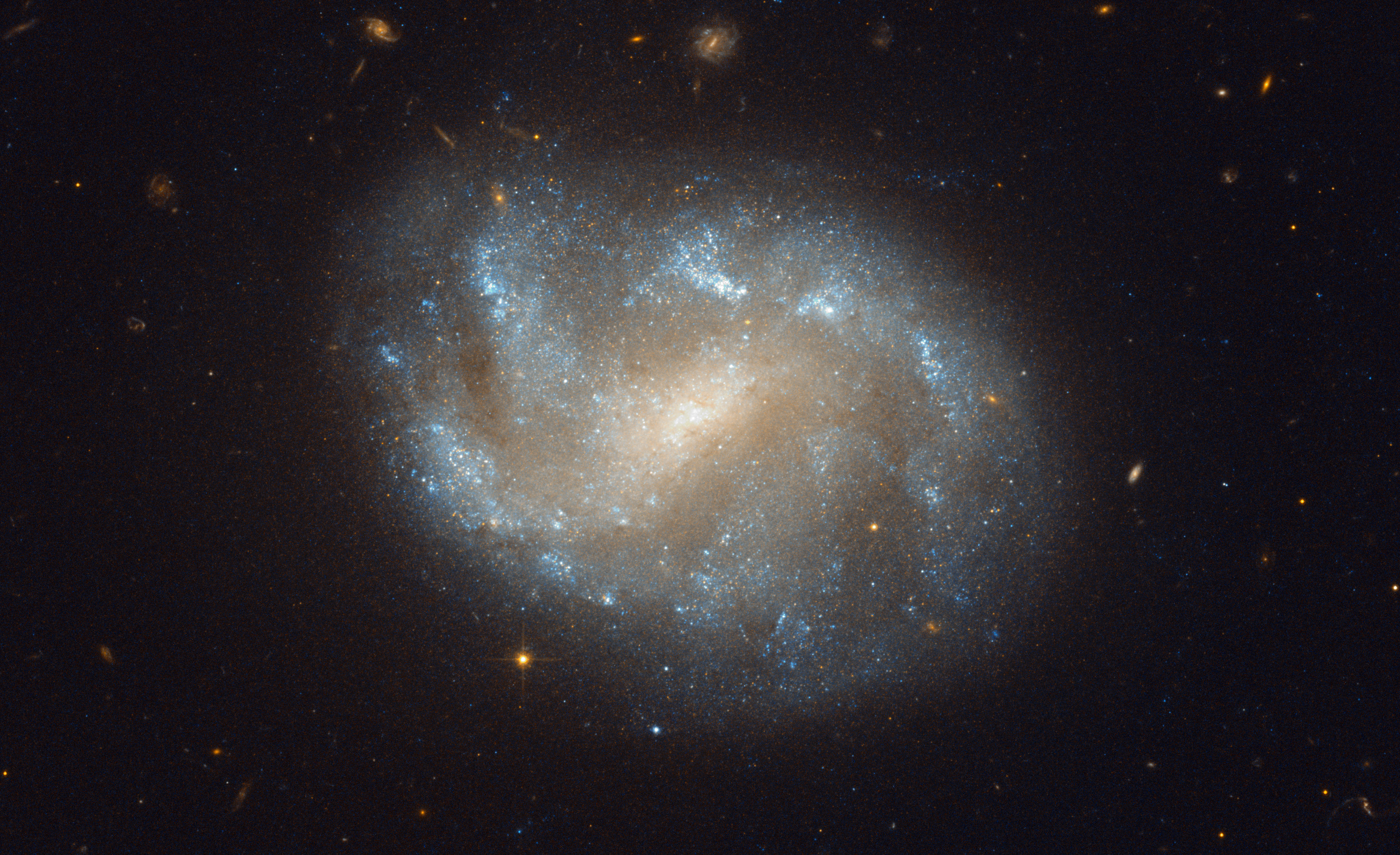 The NASA/ESA Hubble Space Telescope has produced this beautiful image of the galaxy NGC 1483. NGC 1483 is a barred spiral galaxy located in the southern constellation of Dorado — the dolphinfish in Spanish. The nebulous galaxy features a bright central bulge and diffuse arms with distinct star-forming regions. In the background, many other distant galaxies can be seen. The constellation Dorado is home to the Dorado Group of galaxies, a loose group comprising an estimated 70 galaxies and located some 62 million light-years away. The Dorado group is much larger than the Local Group that includes the Milky Way (and which contains around 30 galaxies) and approaches the size of a galaxy cluster. Galaxy clusters are the largest groupings of galaxies (and indeed the largest structures of any type) in the Universe to be held together by their gravity. Barred spiral galaxies are so named because of the prominent bar-shaped structures found in their centre. They form about two thirds of all spiral galaxies, including the Milky Way. Recent studies suggest that bars may be a common stage in the formation of spiral galaxies, and may indicate that a galaxy has reached full maturity.